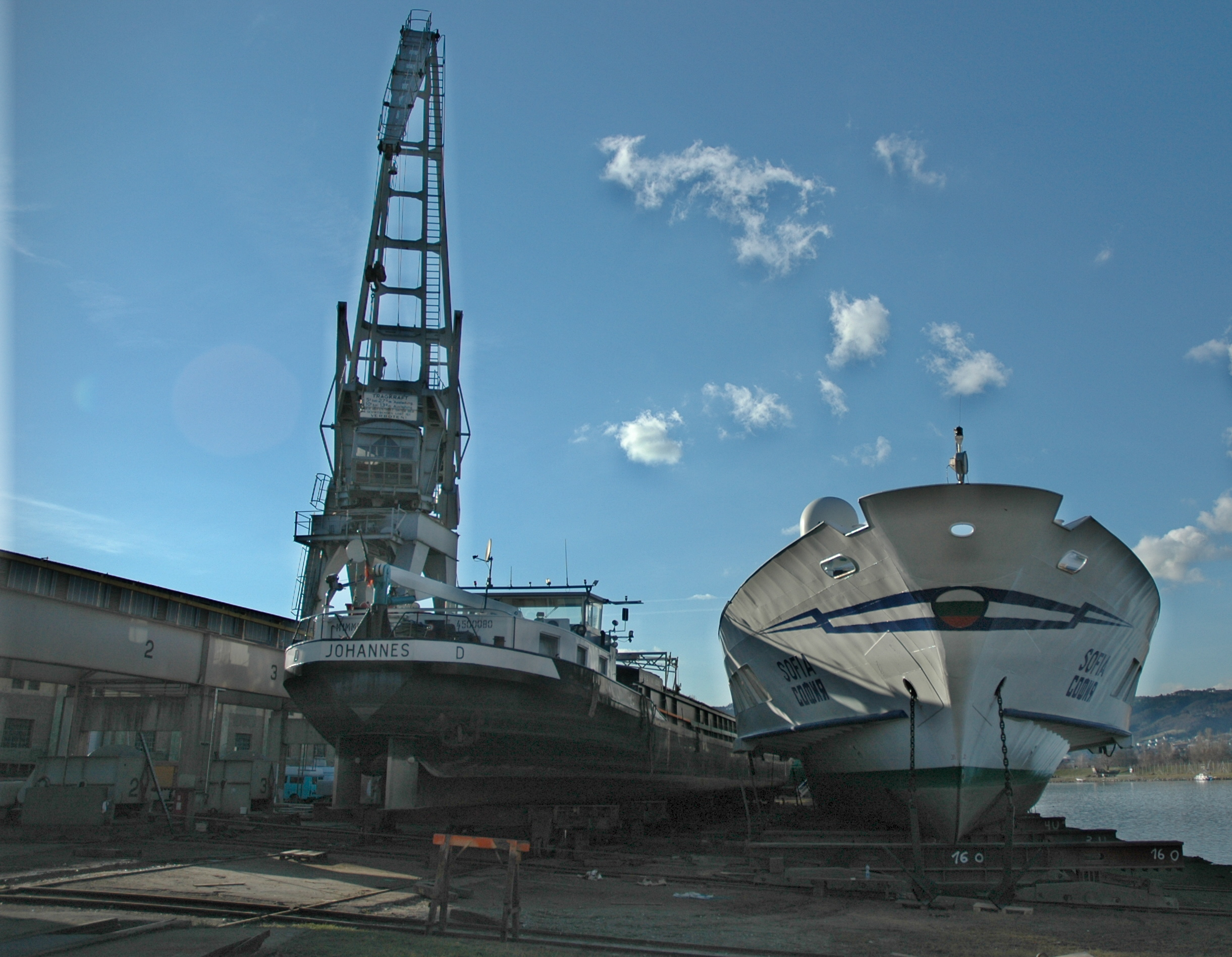 Austria, Linz, Danube